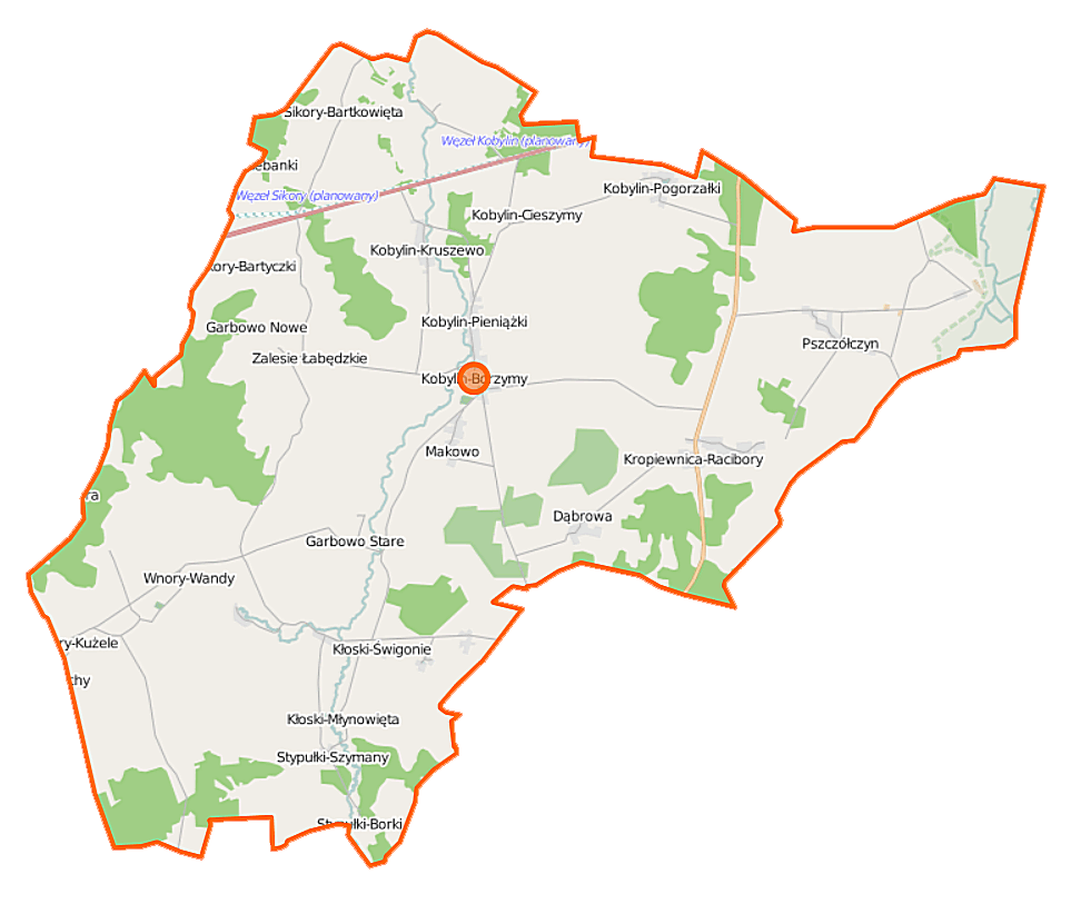 Map of Gmina Kobylin-Borzymy, Poland This map of Kobylin-Borzymy (gmina) was created from OpenStreetMap project data, collected by the community. This map may be incomplete, and may contain errors. Don't rely solely on it for navigation. Border coordinates53.148822.5539←↕→22.820053.0144